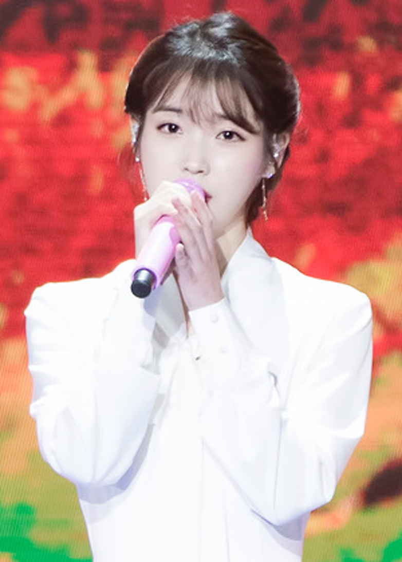 IU at Golden Disk Awards on January 10, 2018.